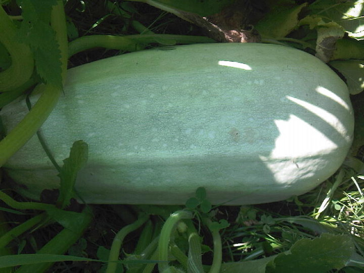 Cucurbita pepo fruit in Lónyaytelep, Tranyalvania.